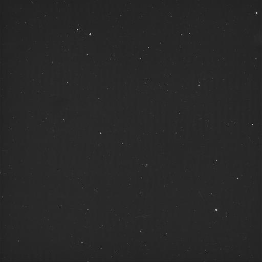 Mundilfari.jpg was taken on June 14, 2007 and received on Earth June 16, 2007. The camera was pointing toward MUNDILFARI at approximately 16,135,670 kilometers away, and the image was taken using the CL1 and IR1 filters. This image has not been validated or calibrated. A validated/calibrated image will be archived with the NASA Planetary Data System in 2008. For more information on raw images check out our frequently asked questions section. Image Credit: NASA/JPL/Space Science Institute